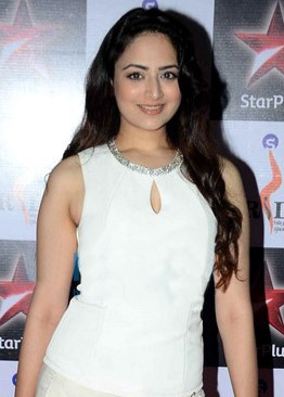 Zoya Afroz at Pride Gallantry Awards by Maharashtra Police.